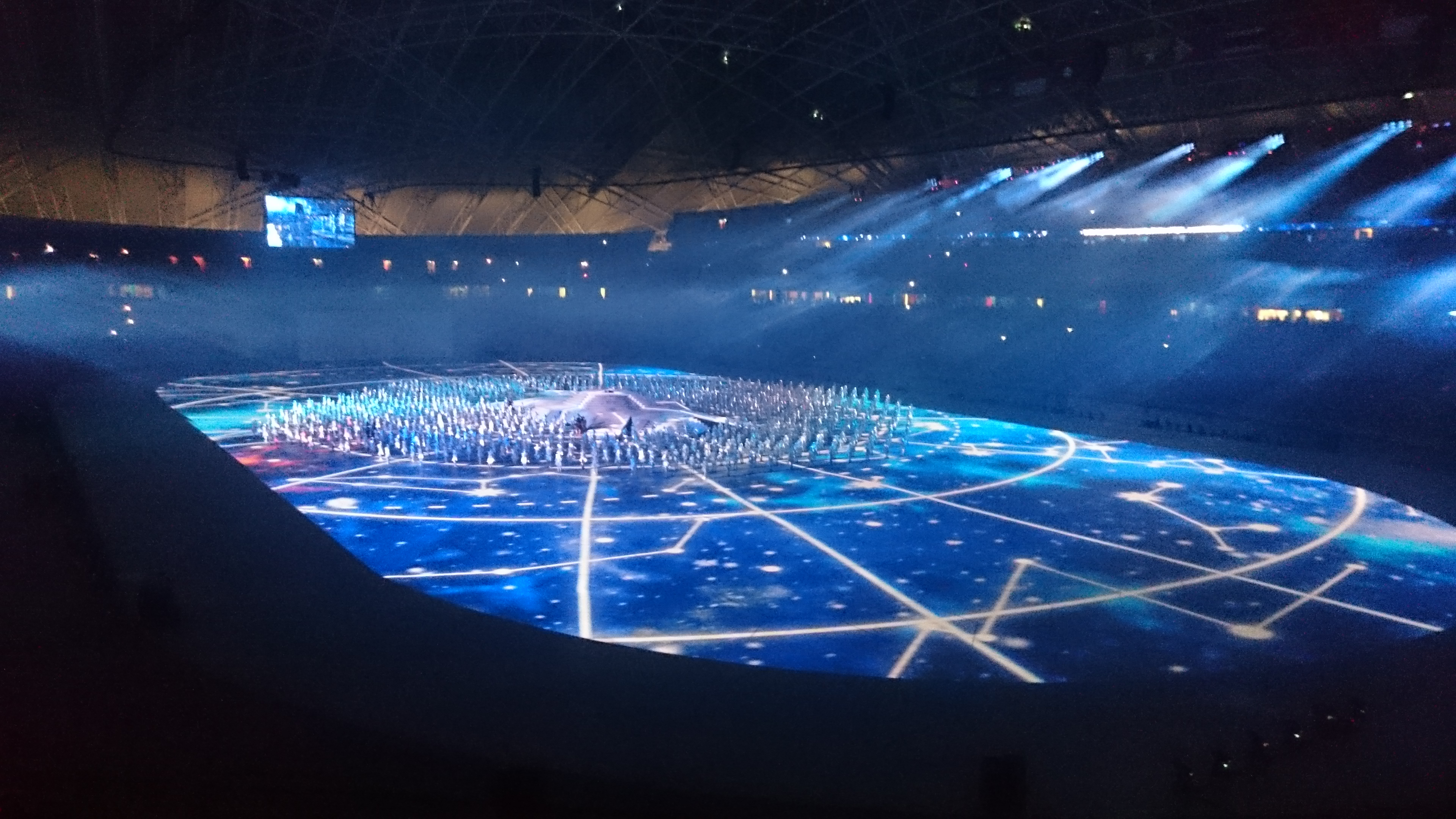 2015 Southeast Asian Games Opening Ceremonies, held at the National Stadium, Singapore, June 05, 2015.